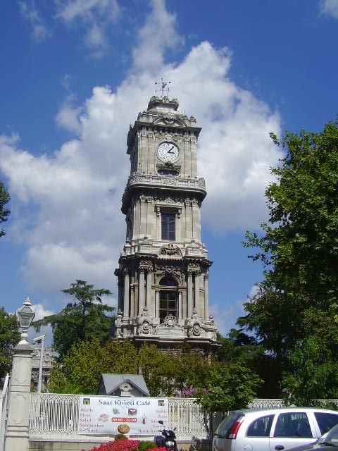 Dolmabahçe Palace Cloco Tower, Istanbul